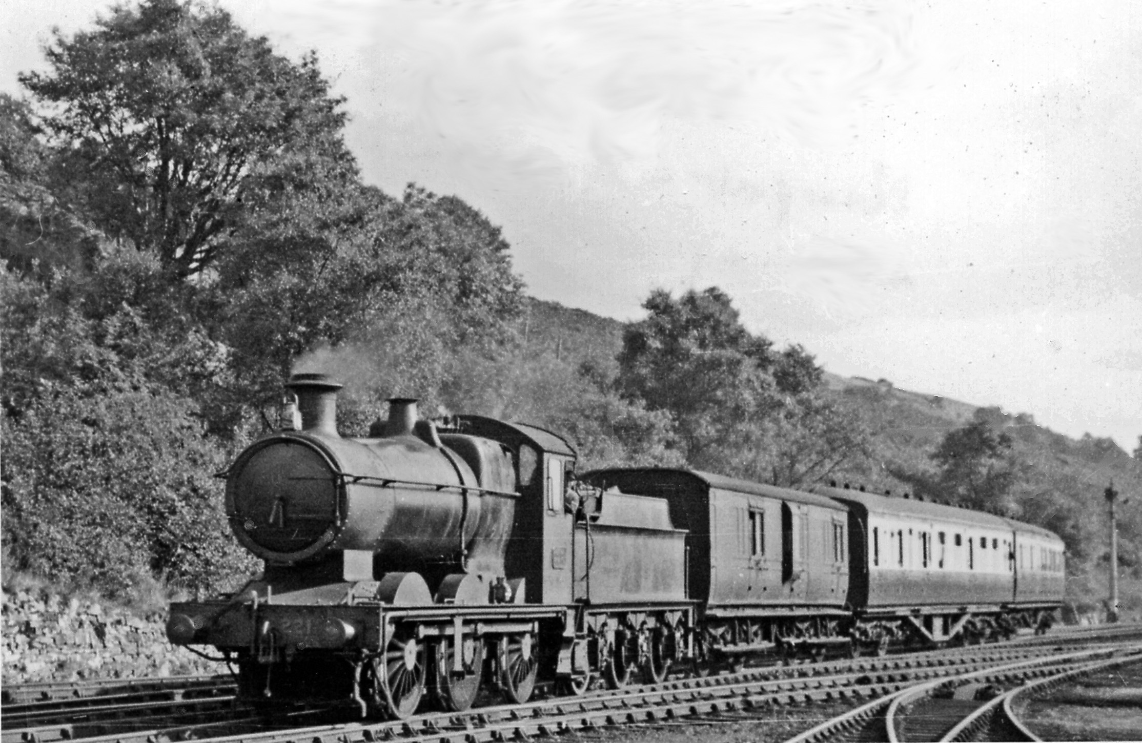 Newport - Brecon train entering Pontsticill Junction. View southward, towards Dowlais, Machen and Newport by the ex-Brecon & Merthyr line, also Merthyr to the right by the Brecon & Merthyr/LNW Joint branch (closed 13/11/61). The Brecon - Newport service ceased 31/12/62 (goods, Ponsticill - Dowlais 4/5/64), but between 1978 and 1980 Pontsticill station was restored and the narrow-gauge Brecon Mountain Railway was built between Pant and Dolygaer. Here, back in 1949, Collett '2251' 0-6-0 No. 2218 (built 6/40) enters with a Newport - Brecon train.